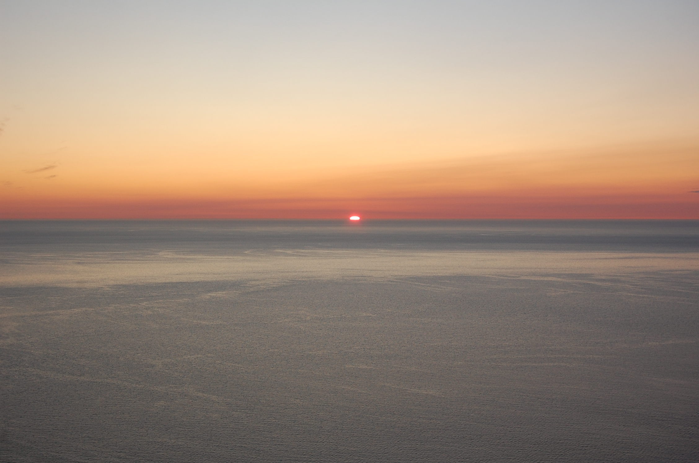 Sunset picture seen from the viewpoint Arctic View, Finmark, Norway